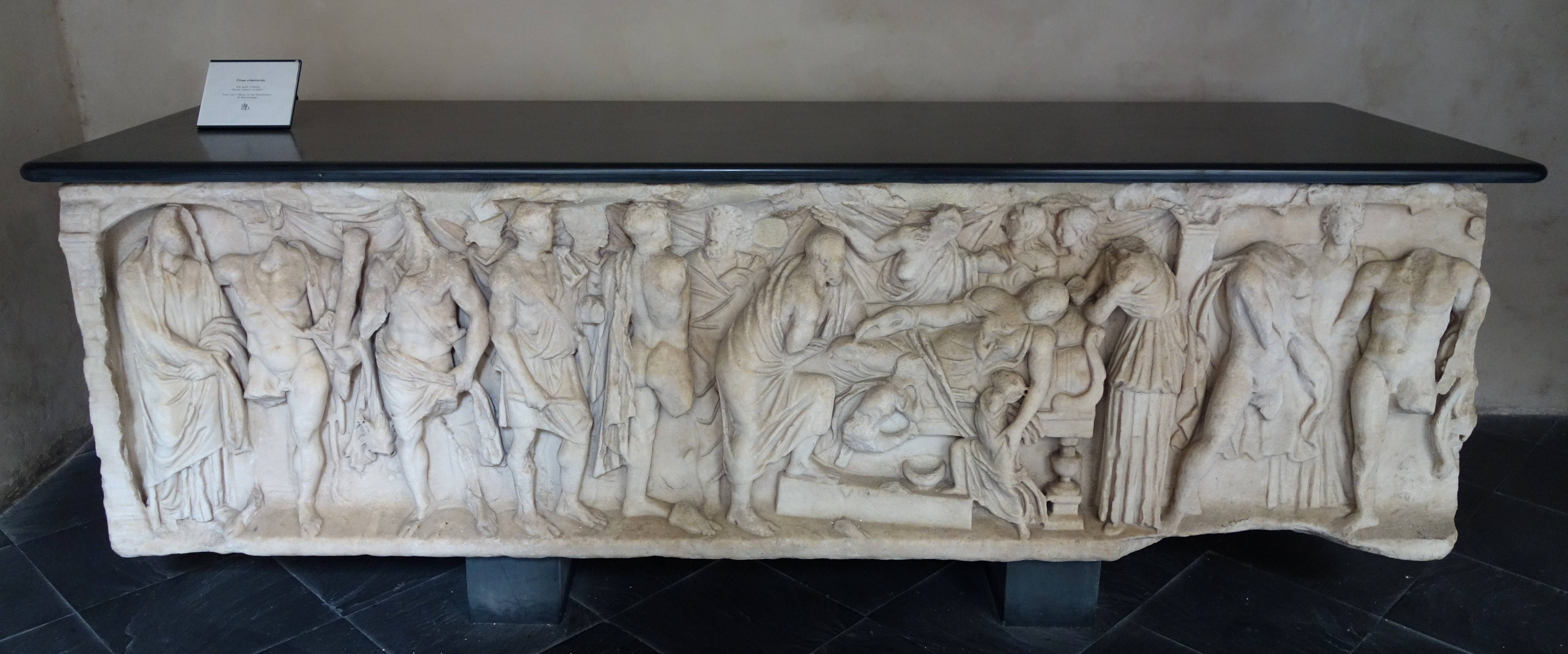 Exhibit in Museo Diocesano, Via Tommaso Reggio, 20 r, Genoa, Italy. All artwork in this museum is old enough so that it is in the public domain.